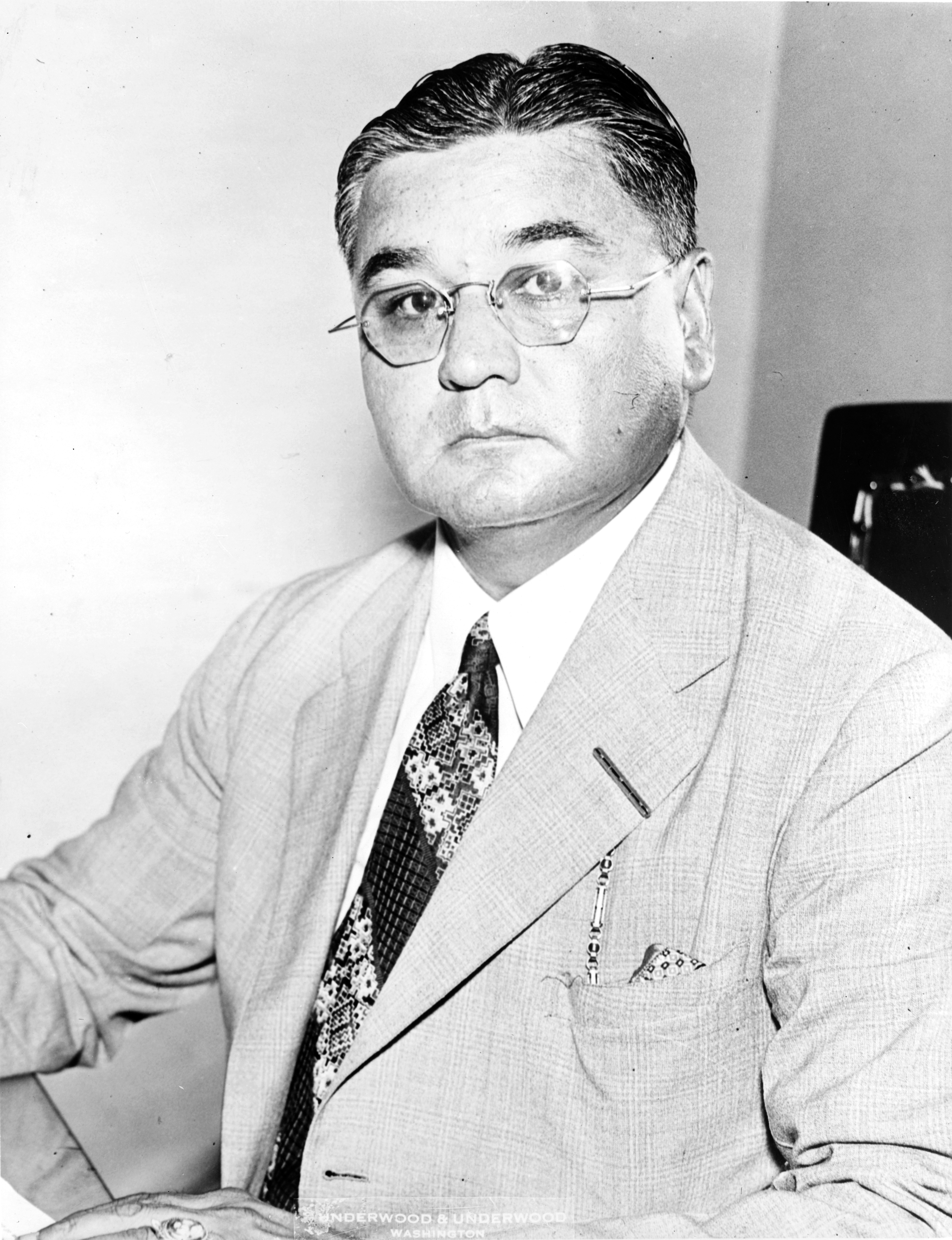 Henry Roe Cloud, half-length portrait, seated at desk, facing slightly left.